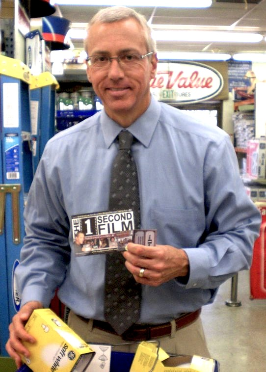 Dr. Drew (David Pinsky) holding a producer credit for The 1 Second Film while shopping for lightbulbs in Pasadena, California